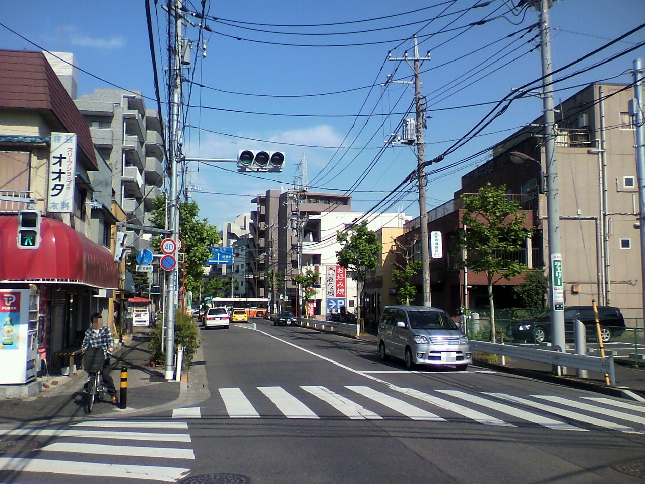 This is a landscape of Ayase 4 chome, Adachi city, Tokyo, Japan.